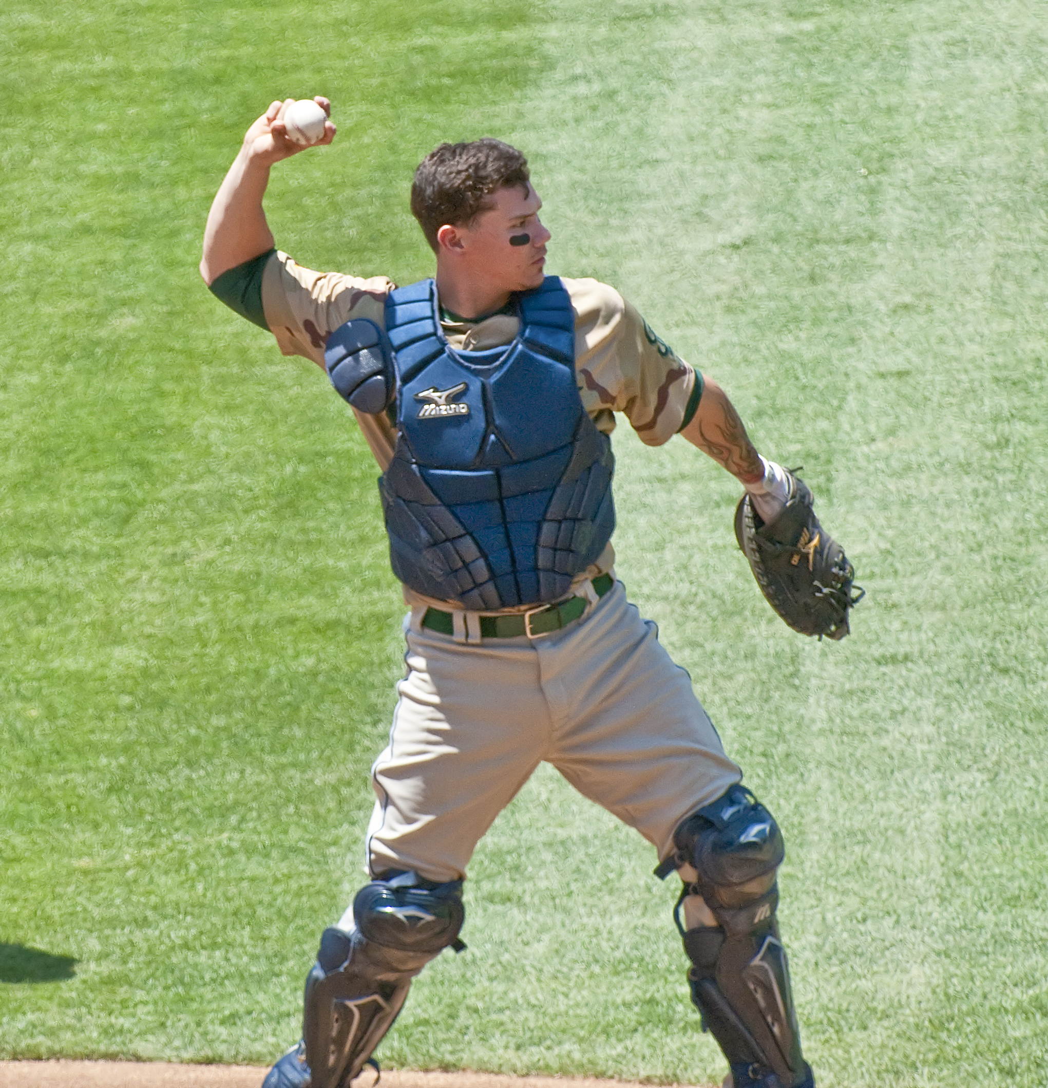 Catcher Jose Lobaton of the San Diego Padres baseball team